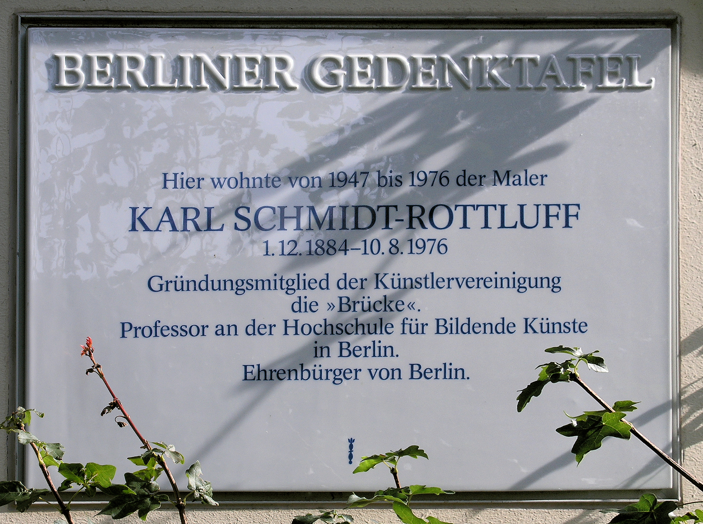 Berlin memorial plaque, Karl Schmidt-Rottluff, Schützallee 136, Berlin-Dahlem, Germany Koordinate:52°26′31″N 13°16′52″E / 52.44194°N 13.28111°E